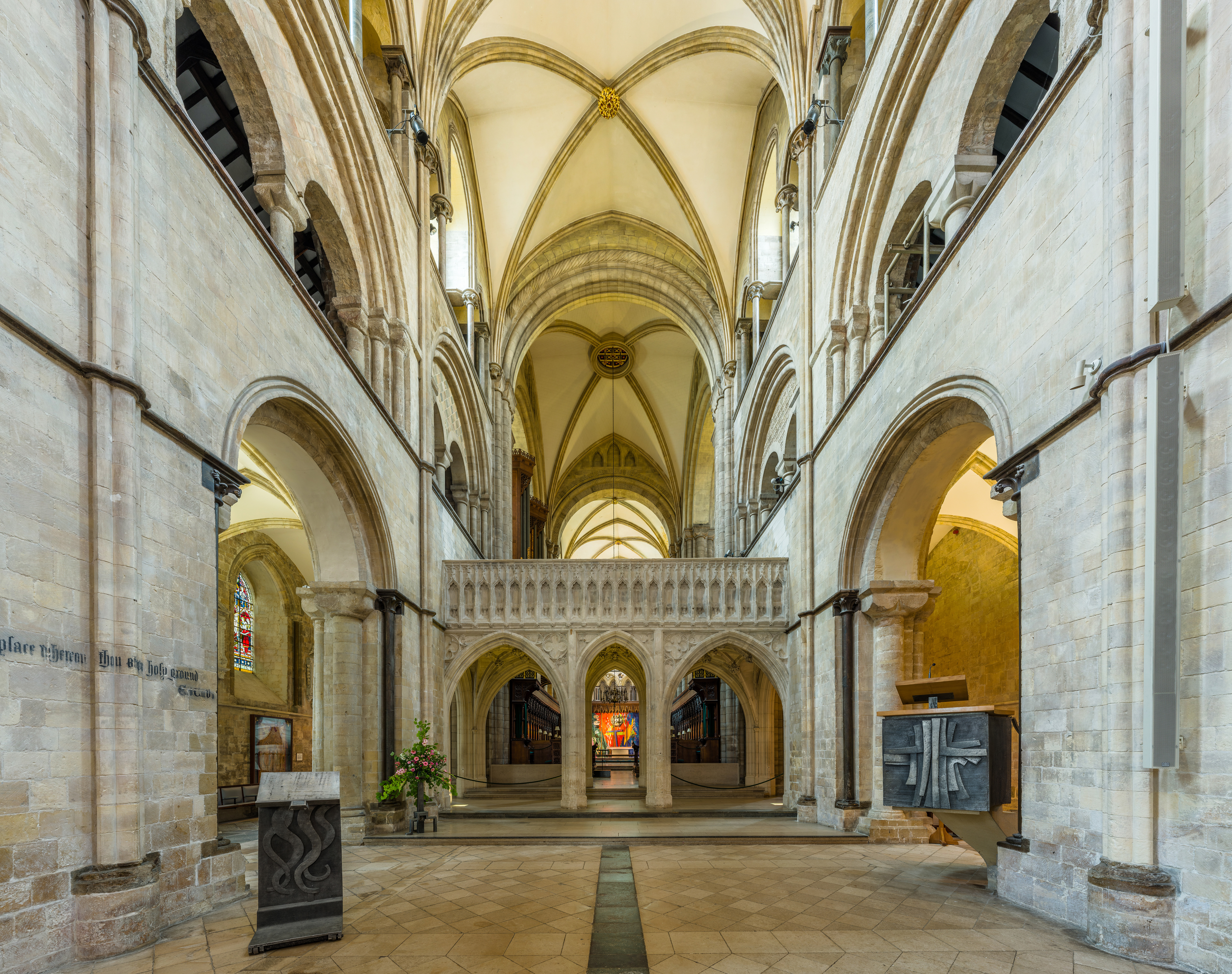 The north transept of Chichester Cathedral in West Sussex, England.